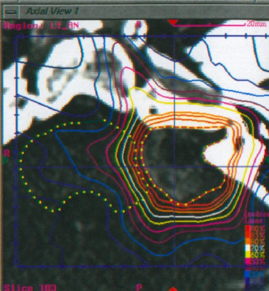 Planning CT scan with IV contrast in a patient with left cerebellopontine angle vestibular schwannoma. The patient was treated with 2500 cGy to the 79% isodose line in five stages.